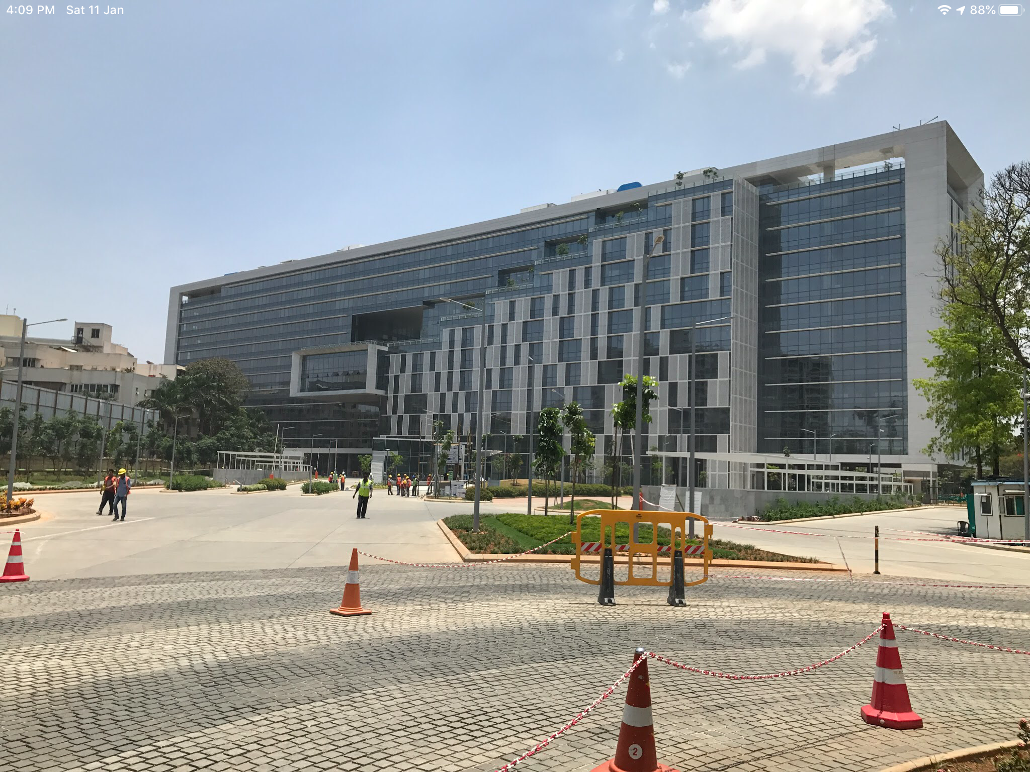 ITC Infotech at Cox Town, Bangalore, Karnataka